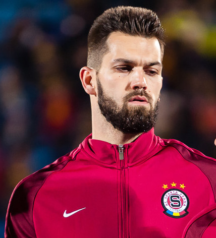 «Ростов» - «Спарта» (16.02.2017)